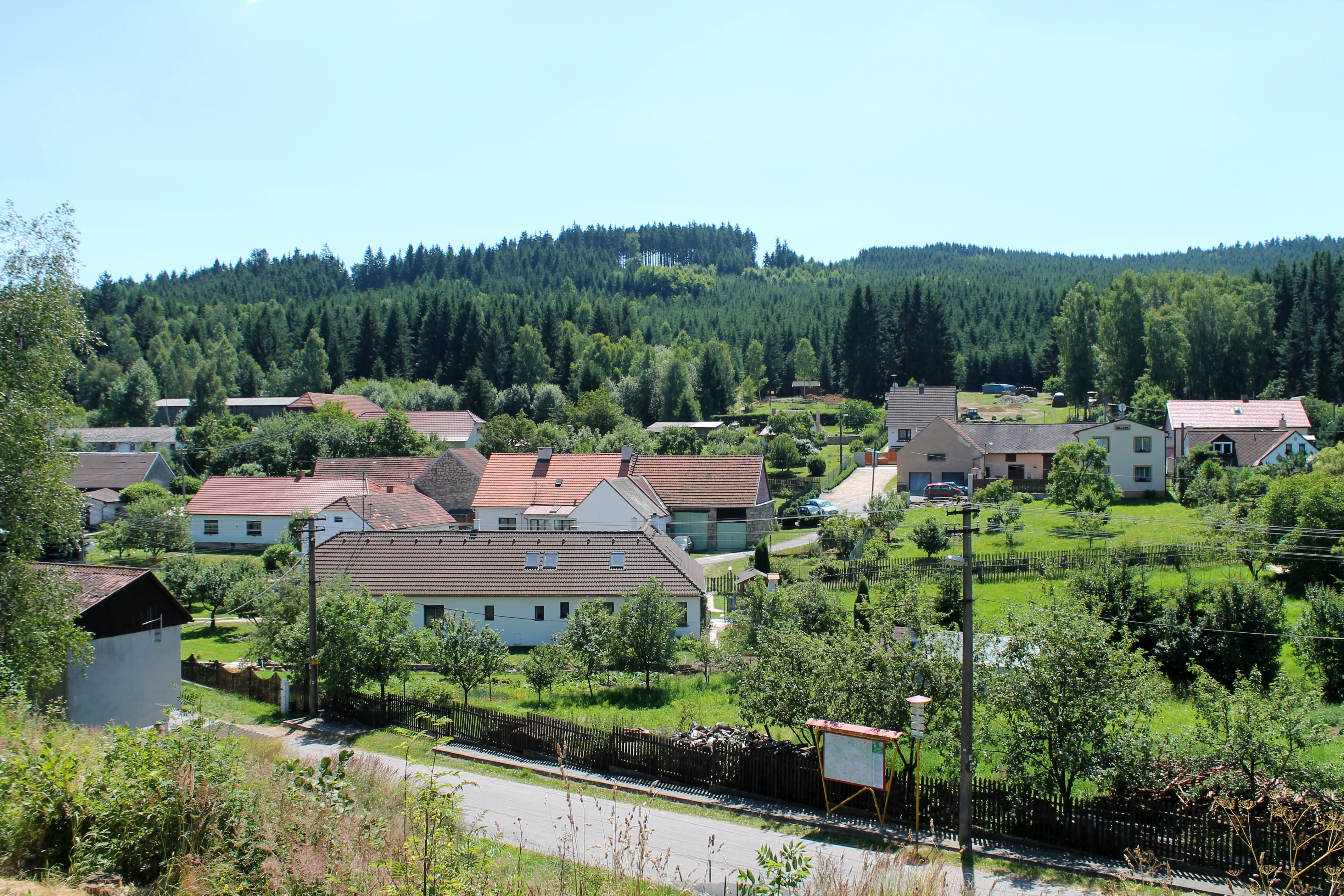 Dobrá Voda with Zdeňkov Hill, Mrákotín, Jihlava District, Czech Republic